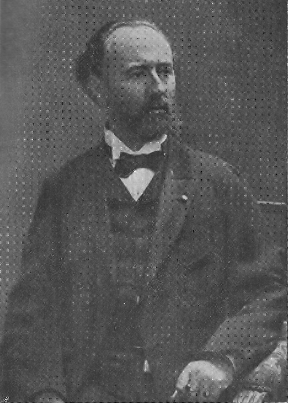 A photograph of Vid Vukasović Vuletić (1853-1933), a Serbian writer from Dubrovnik, historian and ethnographer. Srpski (latinica): Fotografija Vida Vukasovića Vuletića (1853-1933), srpskog književnika iz Dubrovnika, istoričara i etnografa.